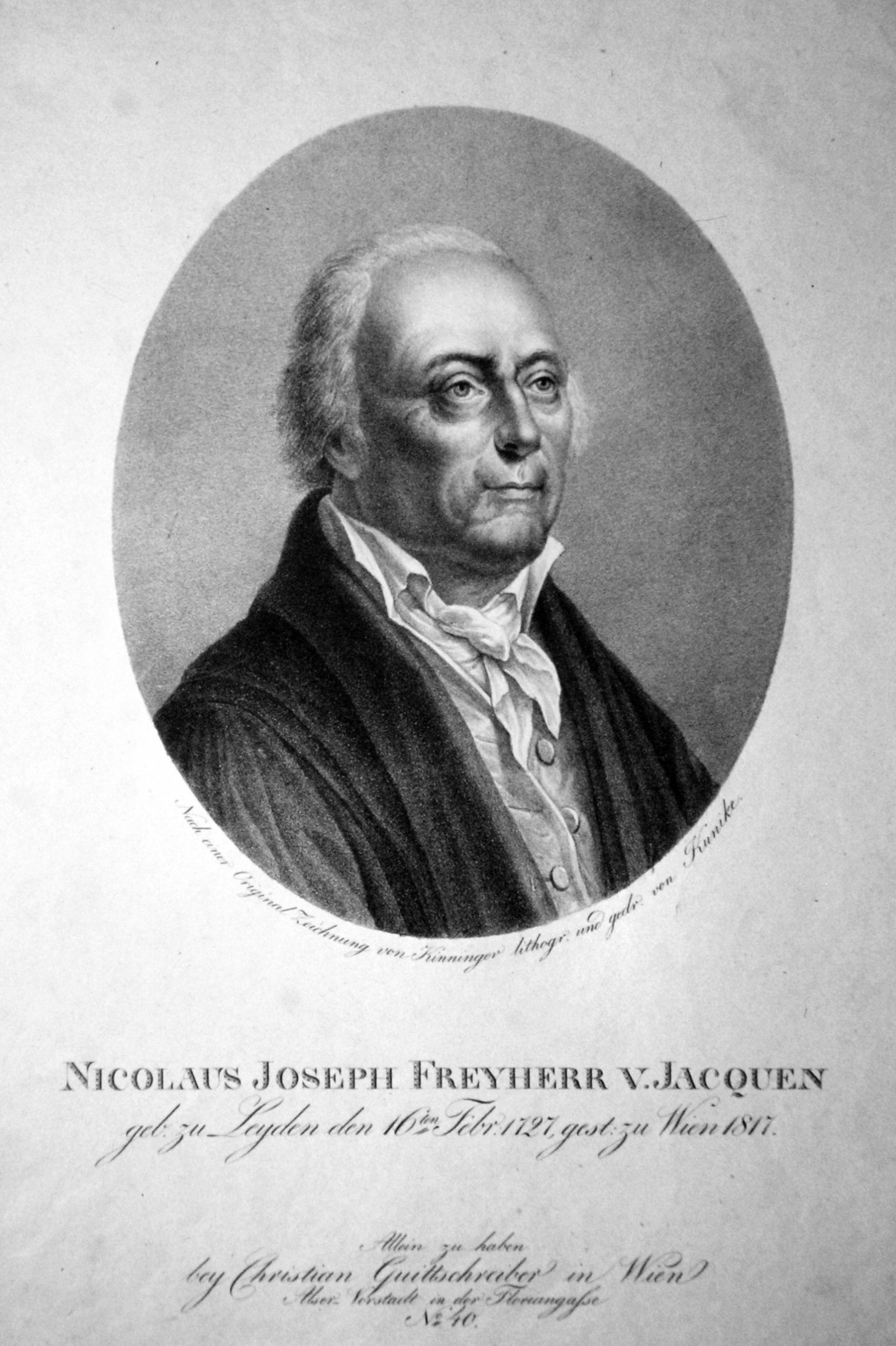 Nikolaus Joseph Jacquin (1727–1817), Lithograph by Adolf Kunike ca. 1820, after a drawing by Kinninger